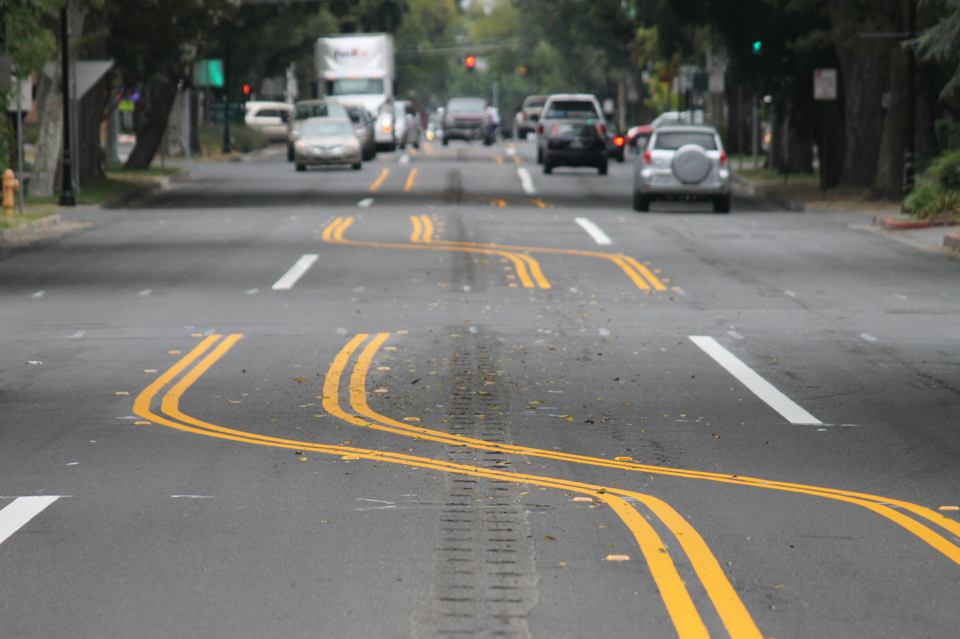 This is the completed road painting for 5th street in Davis CA